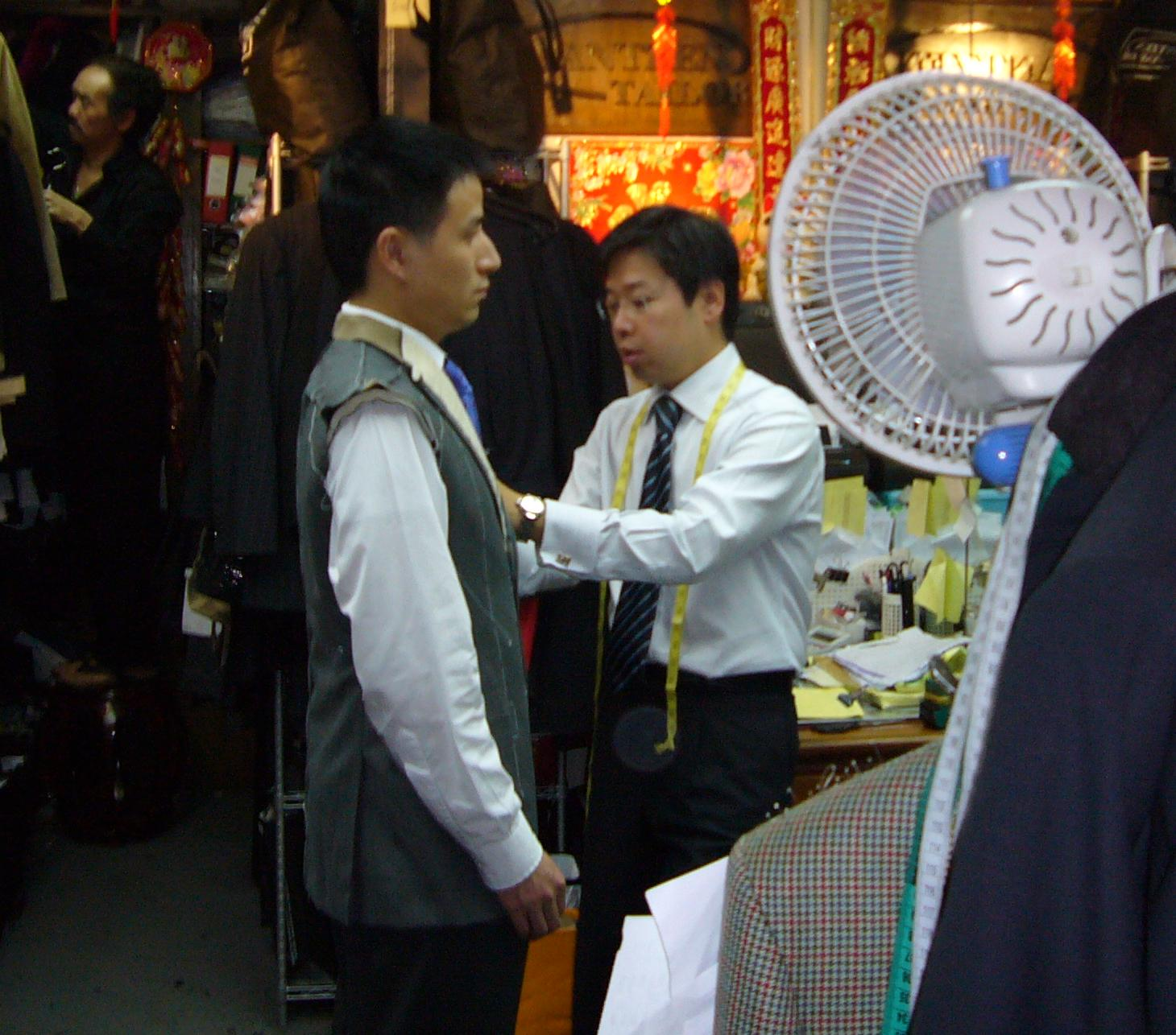 A tailor at work in Hong Kong.